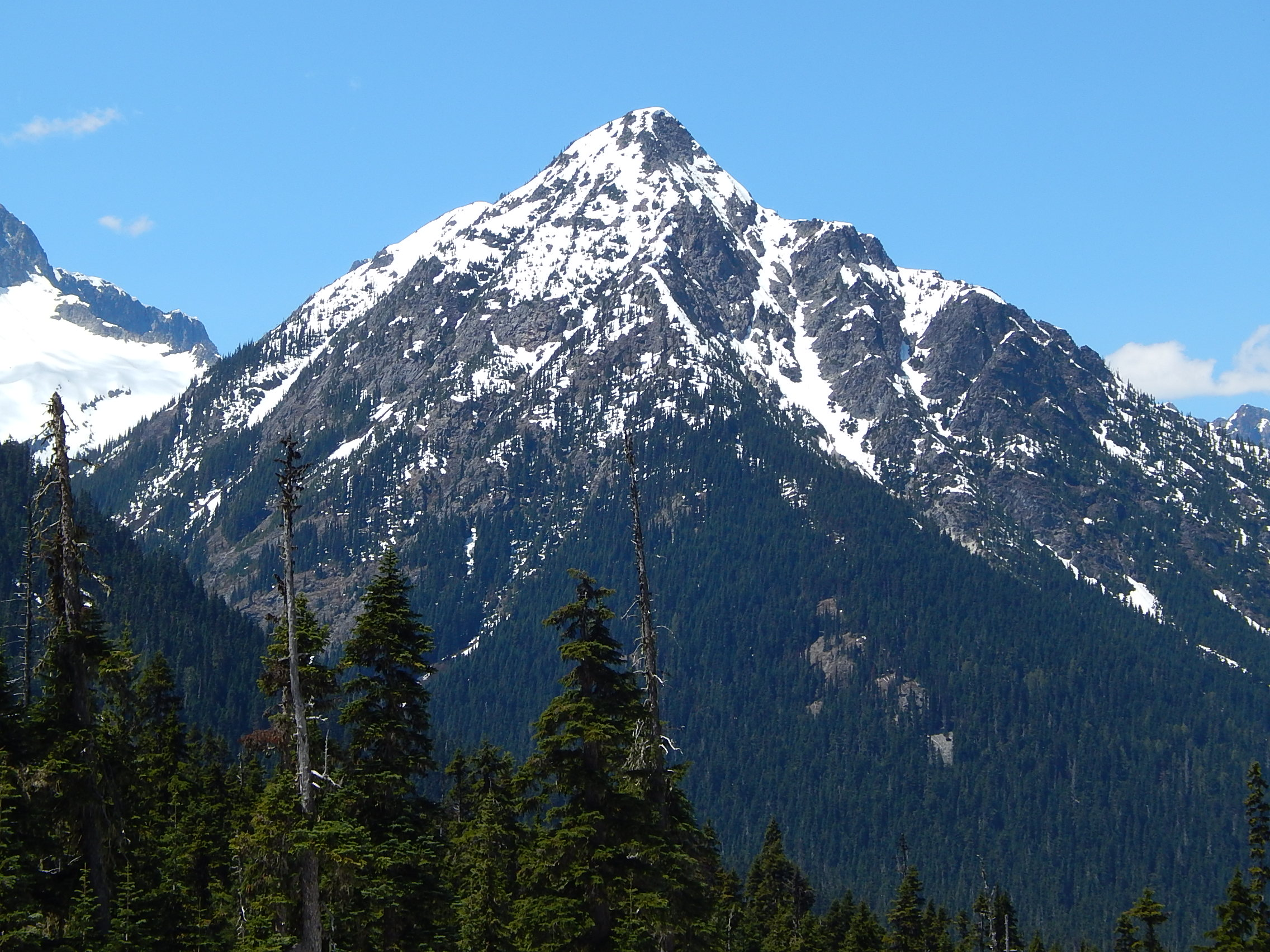 Black Beard Peak 7241 North Cascades mountain range seen from Highway 20